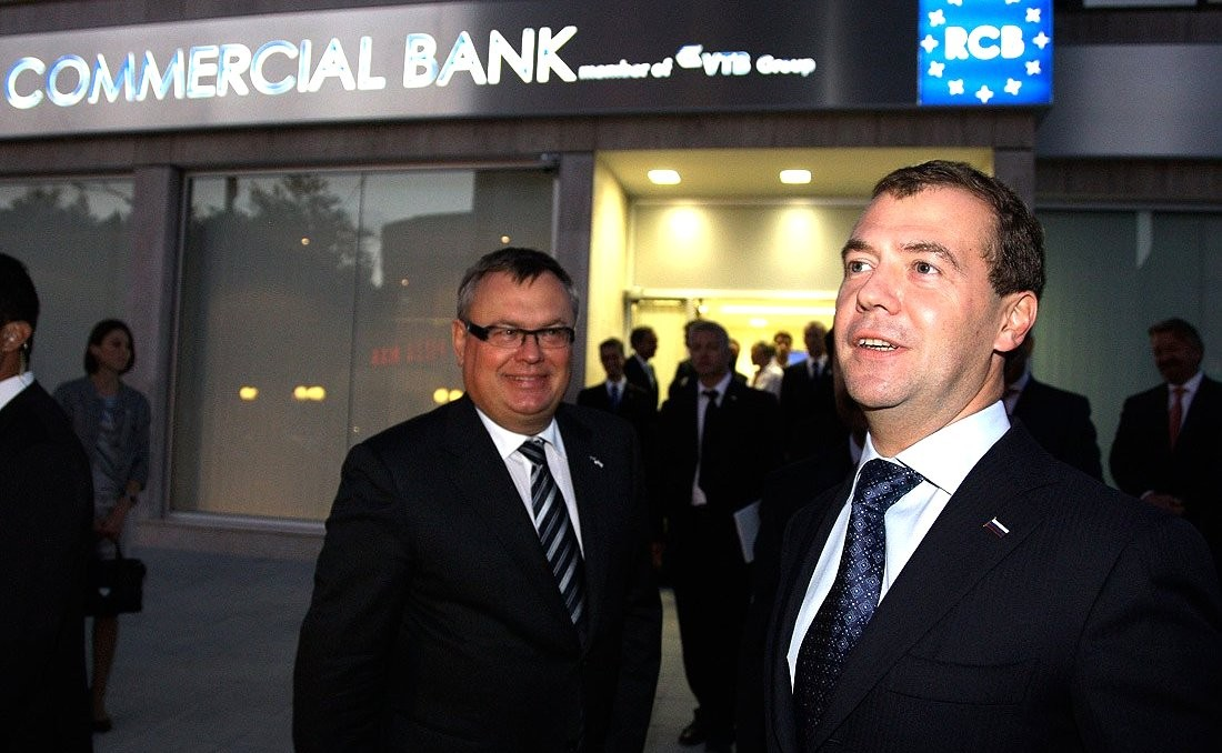 With VTB GEO Andrey Kostin at the openning ceremony of a Nicosia branch of Russian Commercial Bank Ltd.